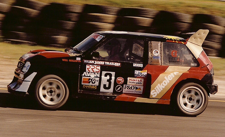 British rallycross driver Will Gollop driving his MG Metro 6R4 at Lydden Hill.